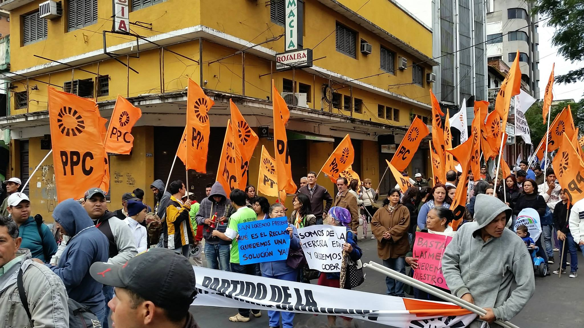 Marcha PPC